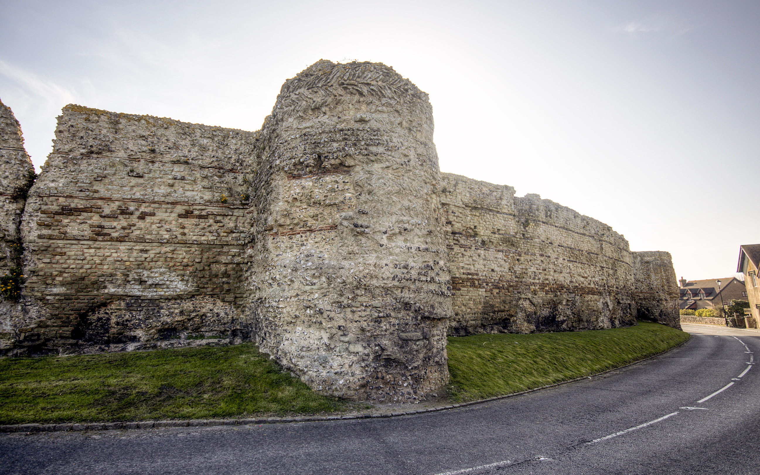 East wall of Pevensey Castle, East Sussex. Several rows of herring-bone masonry are visible in the bastion.